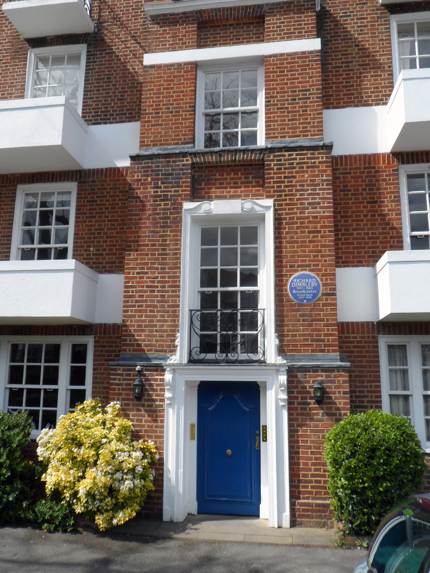 RICHARD DIMBLEBY 1913-1965 Broadcaster lived here 1937-1939